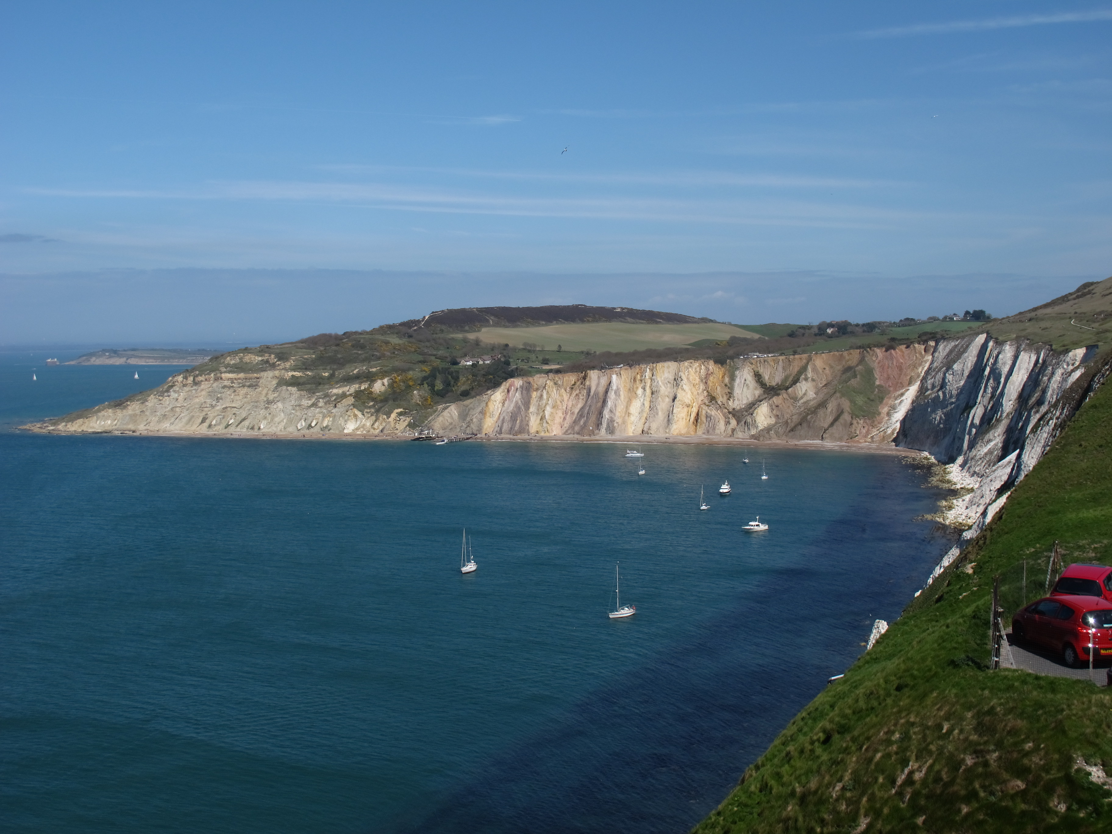 Alum Bay from the Old Battery showing the multicoloured Paleogene sands and clays lying above the top of the Chalk. Immediately above the Chalk are the Reading Formation and the London Clay Formation. The colourful part of the cliffs are sands and clays of the Bracklesham and Barton Groups. At the northern end the sequence is the Headon Formation. The dip varies from very steep in the south to almost horizontal at the northern end, demonstrating the monoclinal structure